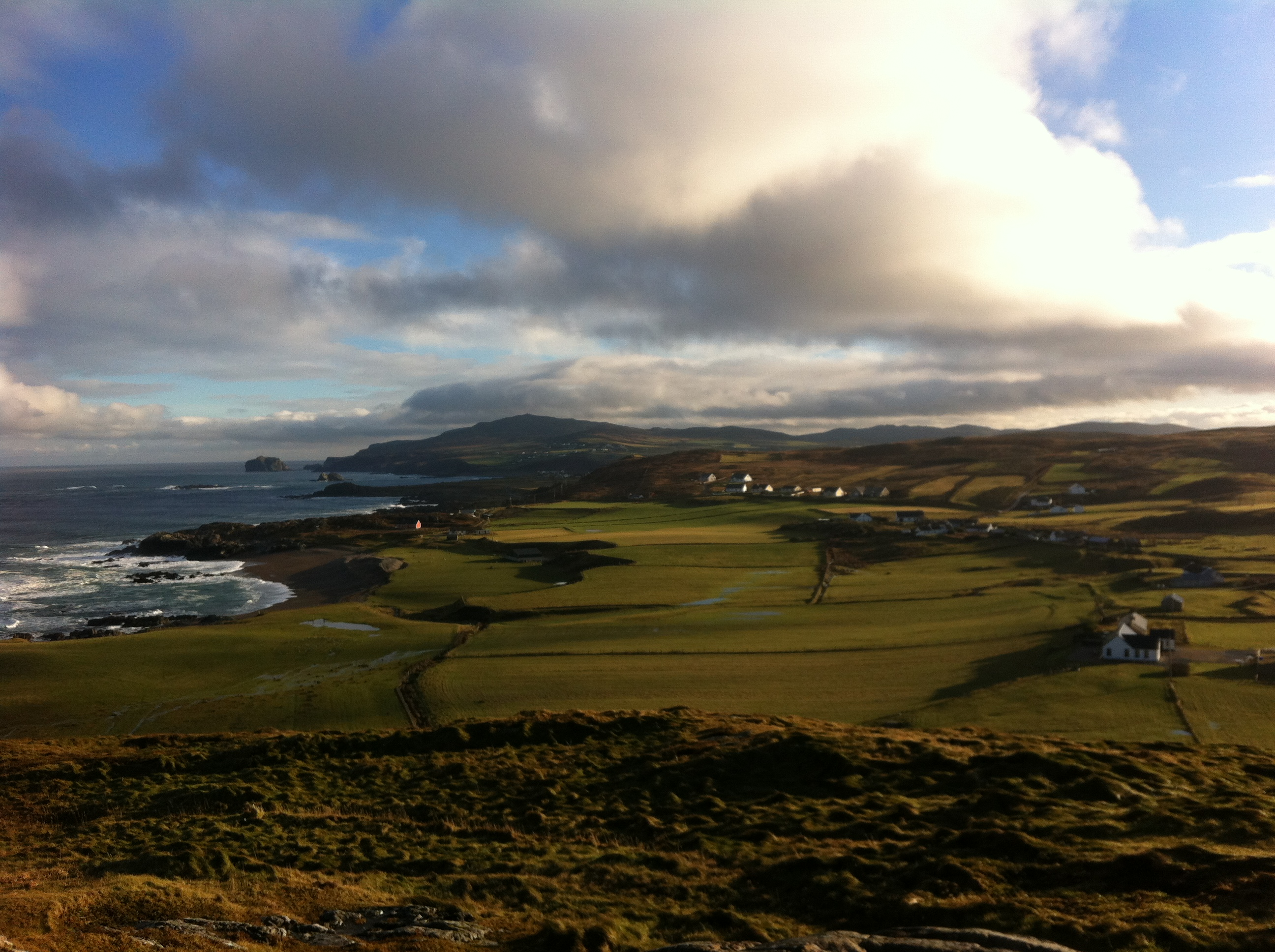 Raised beaches at Malin Head